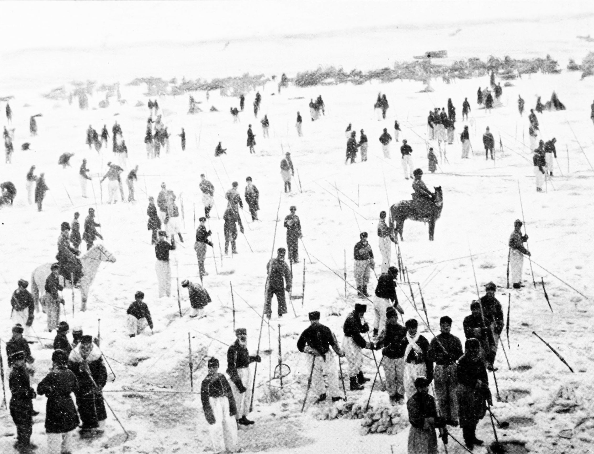 Winter fishing on the Ural river